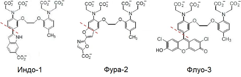 Рис. 3. Вещества, разработанные для измерения концентрации внутриклеточного кальция (а-в). Флуоресцентные фрагменты, основанные на 8-координационном тетракарбоксилатном хелатирующем сайте, отделены пунктирными линиями. (а) индо-1; (б) метка фура-2 с двойным пиком возбуждения; (в) флуоро-3 с одним пиком возбуждения. Данные основаны на обзоре Хаугланда, 2010.